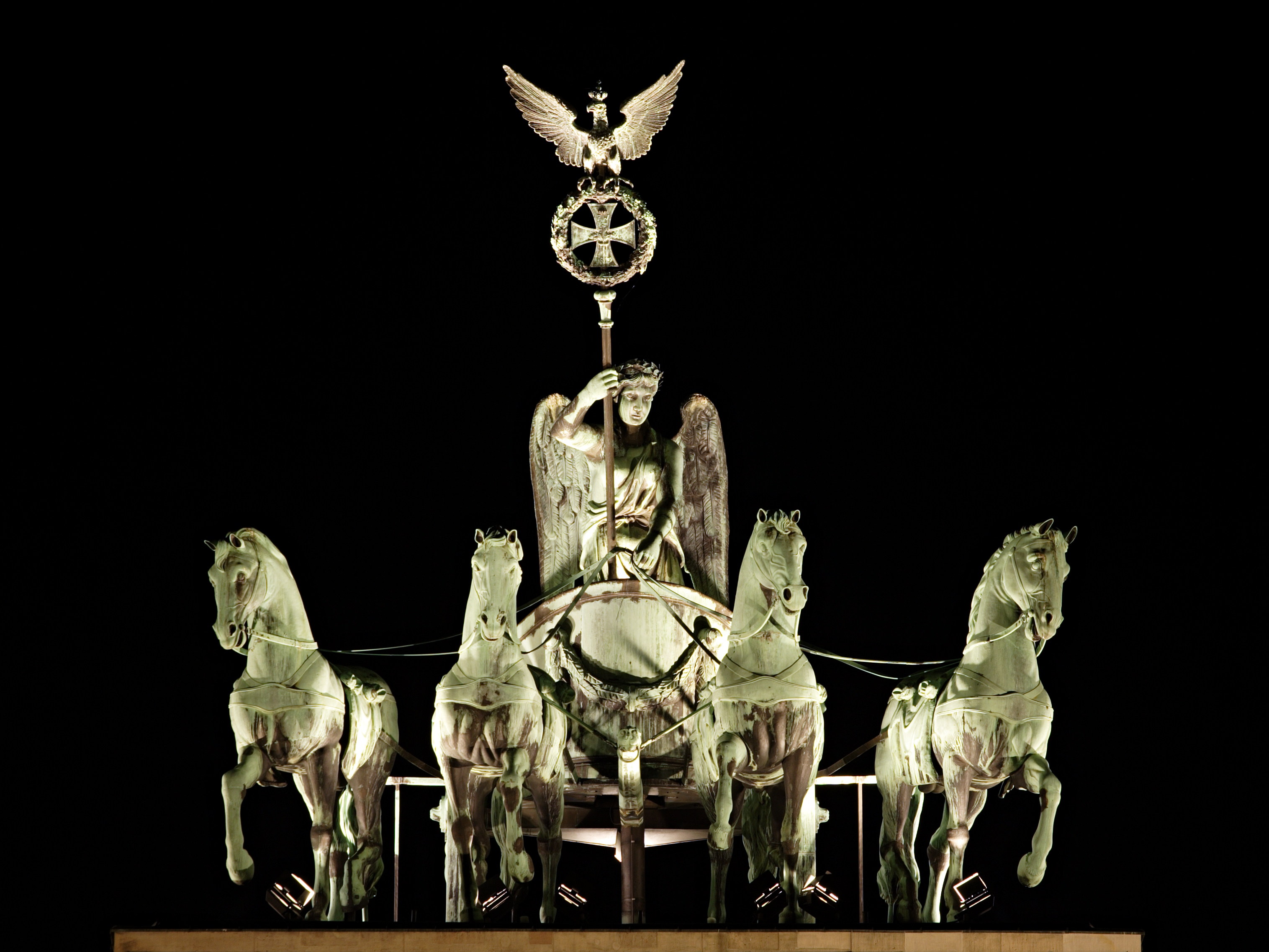 This picture is a close-up of the quadriga on top of the Brandenburg Gate in Berlin (Germany) at night. The sculpture was produced by Johann Gottfried Schadow in 1793. Be on the lookout for derivative works of 3D objects such as statues and sculptures. This one's OK - the author died about 160 years ago. Check Commons:Freedom of panorama to see whether such derivative works are permitted to be freely licensed.